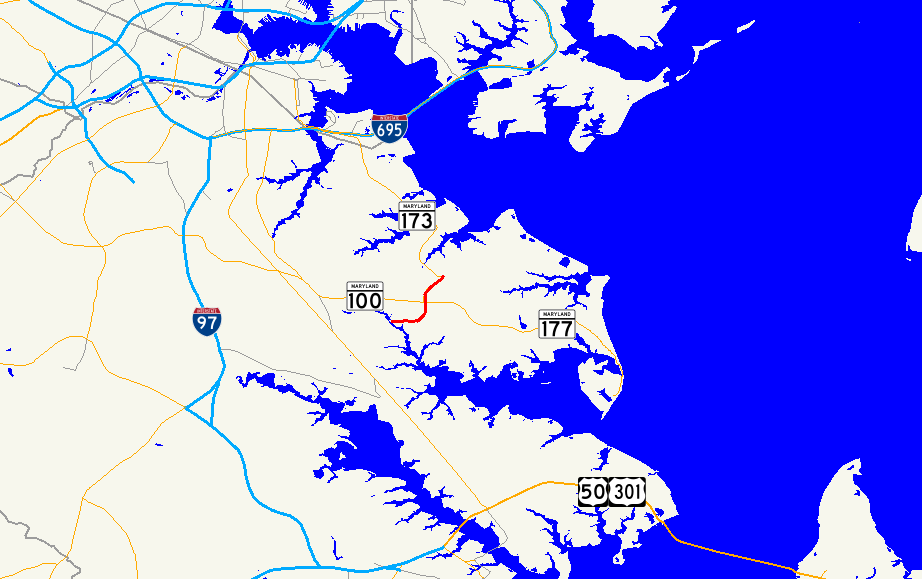 Map of Maryland Route 607